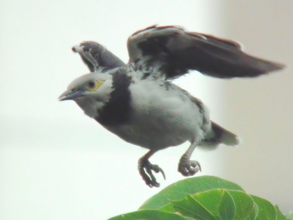 Saw at river side . Got a video as well.